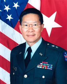 Official Army photo